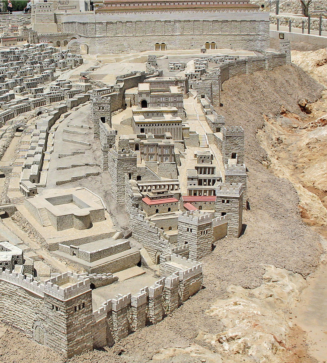 The Second Jerusalem Temple. Model in the Israel Museum.